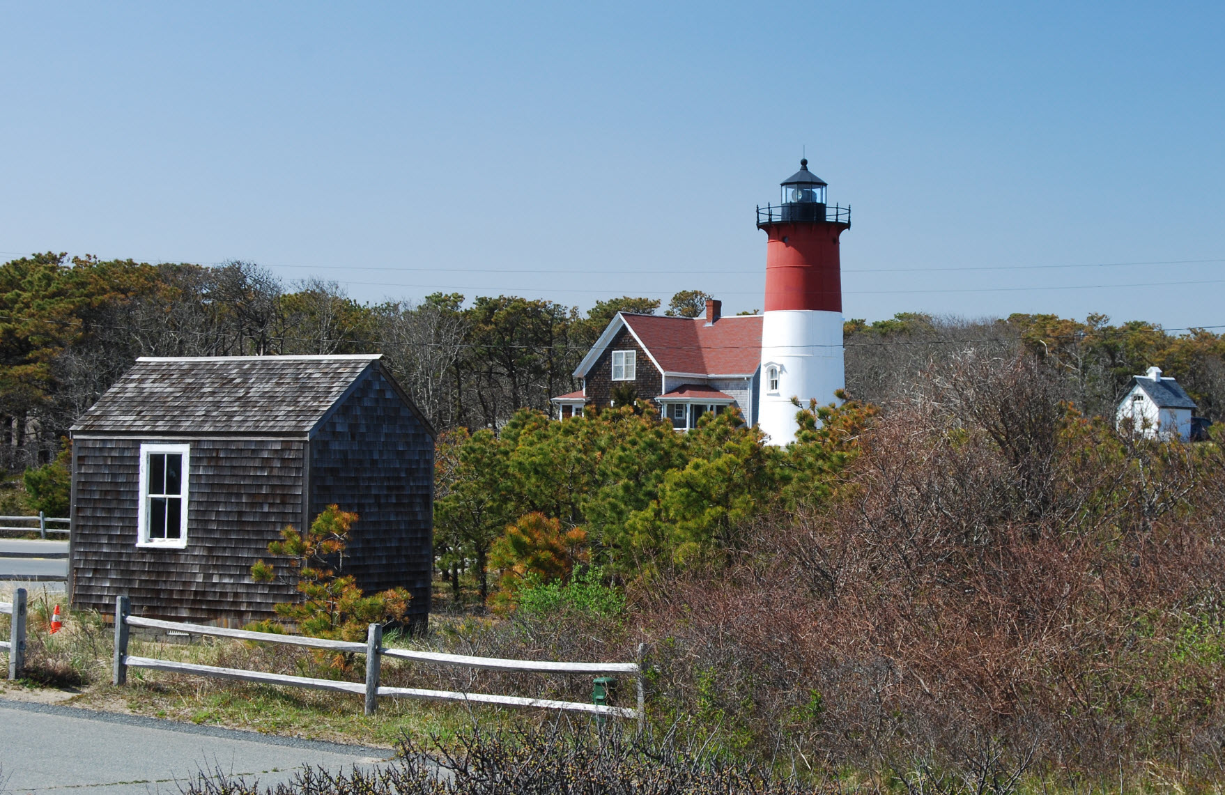 French Cable Hut, Eastham, Massachusetts. Site of transatlantic telegraph cable from Cape Cod, Massachusetts to France.